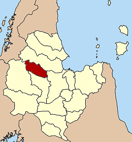 Map of the province Surat Thani, Thailand, highlighting King Amphoe Wiphawadi (geocode 8419).